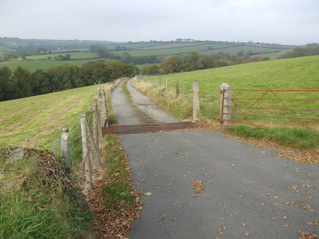 Track to Trebeigh, formerly a preceptory of the Knights Hospitaller in Cornwall, close to St Ive